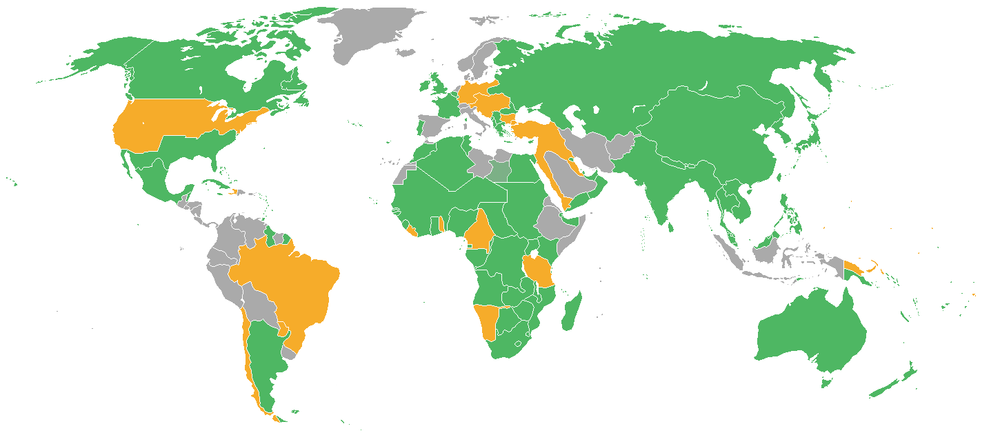 Based on information from the "Great War" series written by Harry Turtledove. Map of the World showing the Participants in World War I (Southern Victory Series): Allies of World War I (some entered the war or dropped out later) Central Powers Neutral countries